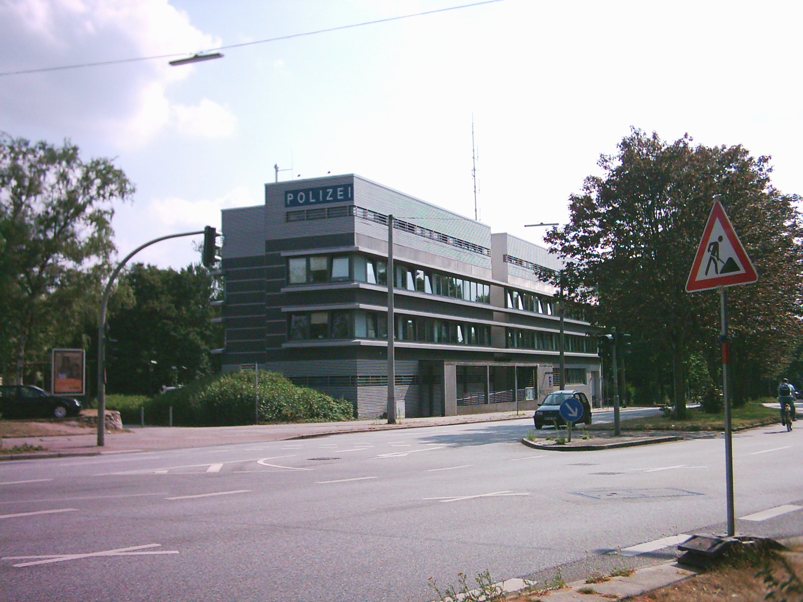 Superintendents department 41 in Hamburg, Germany.